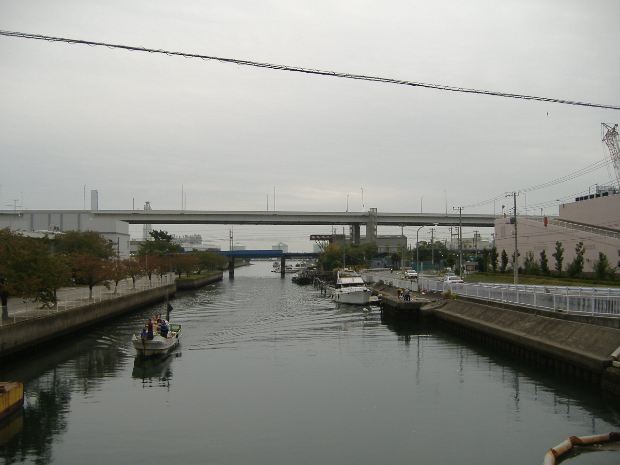 Horiwarigawa_estuary (Yokohama, Japan)